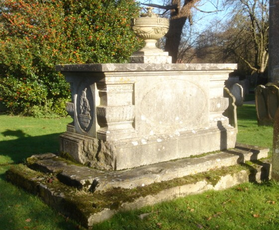 The table tomb to George and Mary Hutchinson in the churchyard of St Margaret's Church, Ifield, Crawley, West Sussex, England. Listed at Grade II by English Heritage (ref #363398)